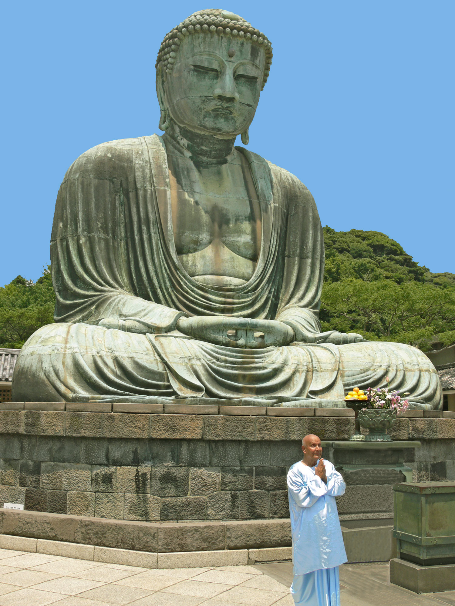 Sri Chinmoy meditates in front of the Daibutsu Buddha sculpture in Kamakura, Japan.